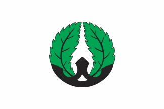 Flag of Hayama Kanagawa